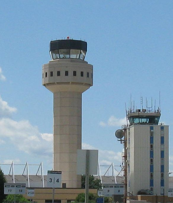 Control tower of Long Island MacArthur Airport